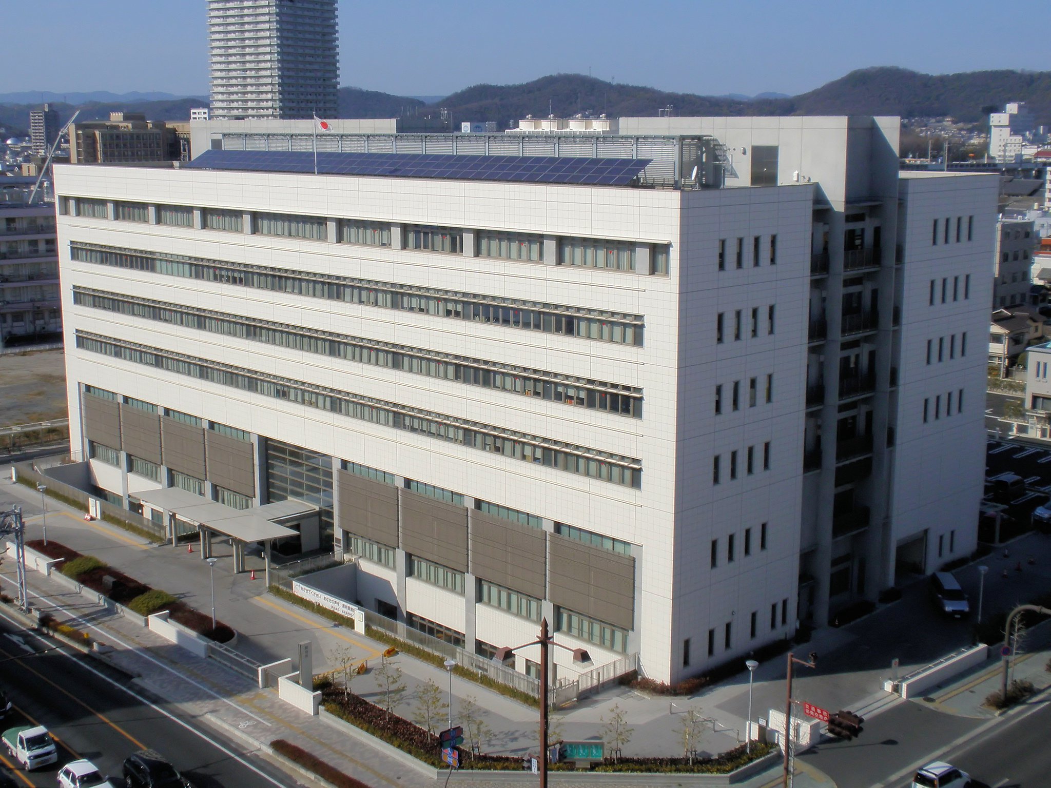 Courthouse in Okayama, Okayama prefecture, Japan Hiroshima High Court Okayama Branch Okayama District Court Okayama Family Court Okayama Summary Court Okayama Committee for the Inquest of Prosecution